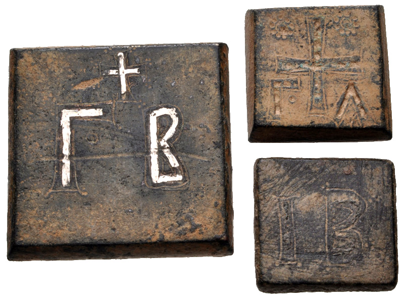 Lot of three (3) bronze weights. Romano-Byzantine, 4th-5th centuries AD. Includes the following: 12 scripula weight (13.15 g), 1 ounce weight (26.74 g), 2 ounce weight (53.76 g). Silver inlay remaining on largest.